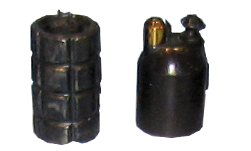 Vivien-Bessière WWI grenade used with grenade sleeve - WWI (in coll. Mémorial de Verdun).